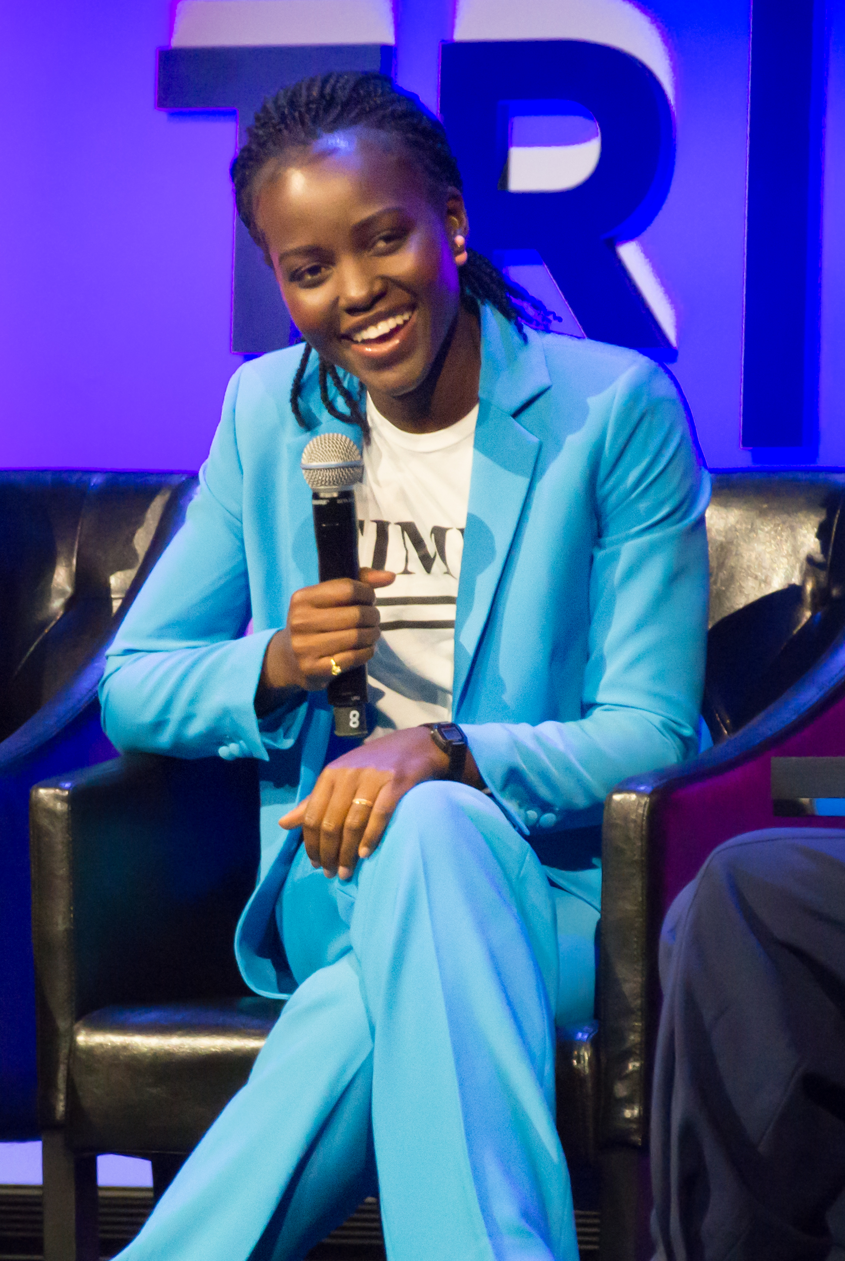 Time's Up event at the 2018 Tribeca Film Festival (Tribeca Talks: Time's Up). A series of talks/performances about Time's Up/sexual harassment. Cynthia Erivo and Lupita Nyong'o during the Reclaiming the Narrative panel.